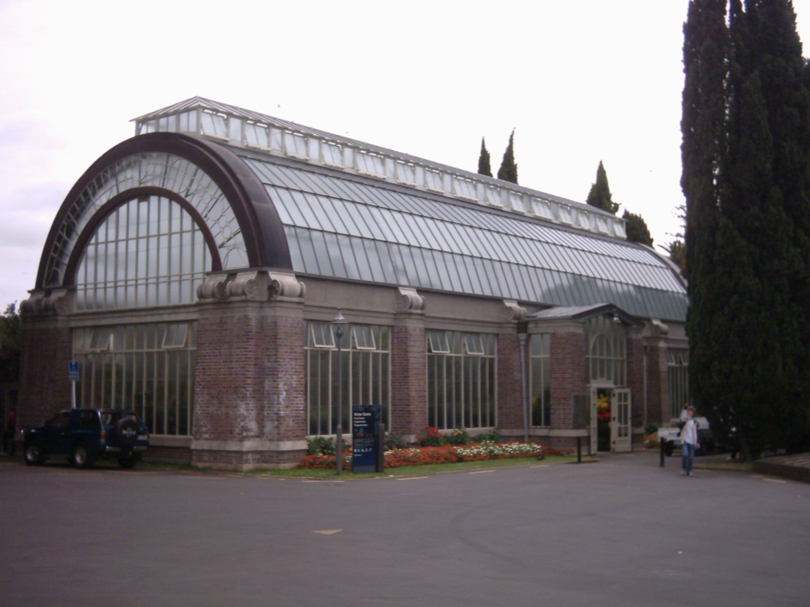 The Winter Gardens in the Auckland Domain, eastern-side building, looking north-west. Auckland City, New Zealand.